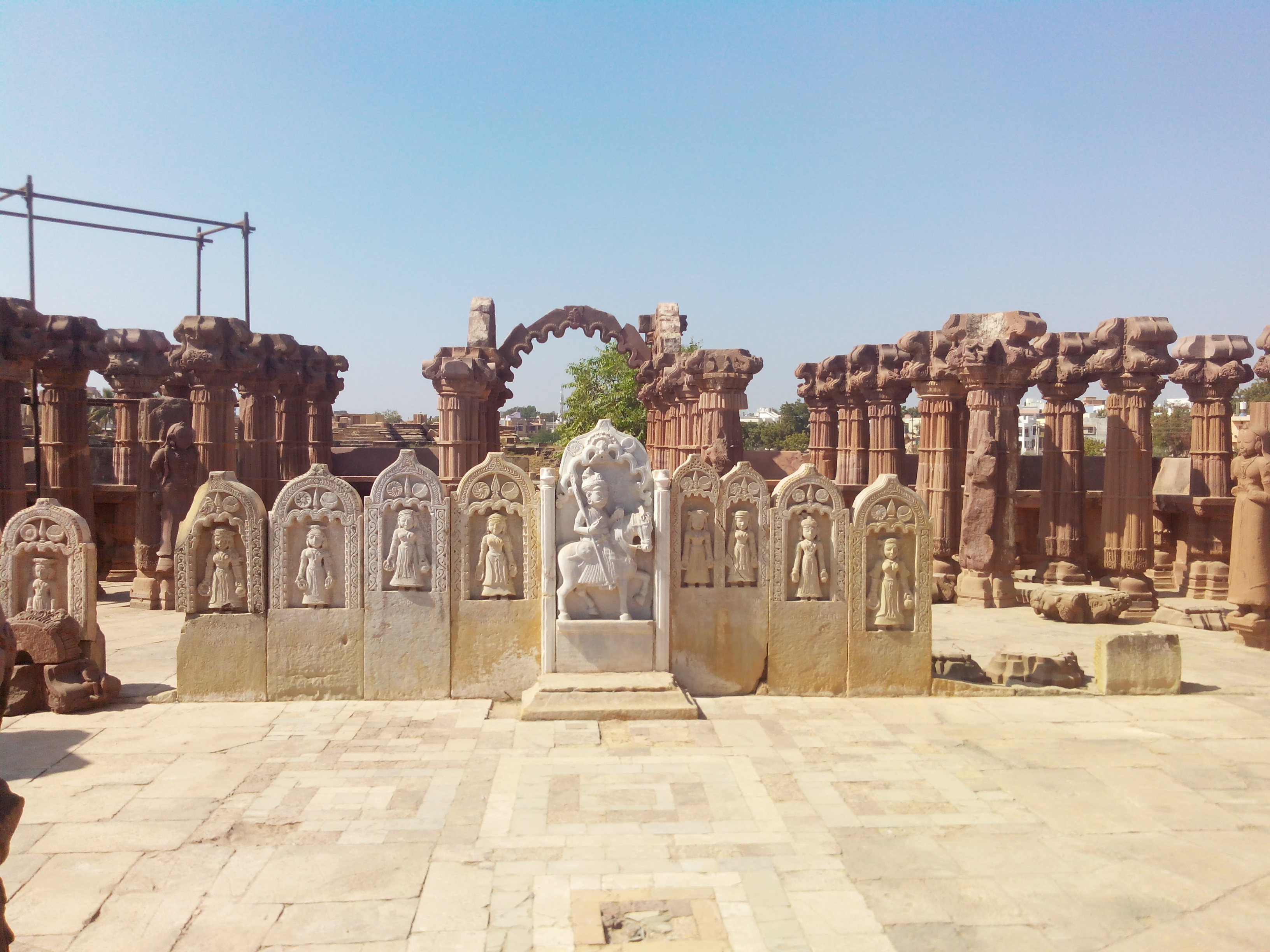 Memorial stones aka Paliya under cenotaph (now fallen) of Rao Lakhpatji of Kutch and his queens